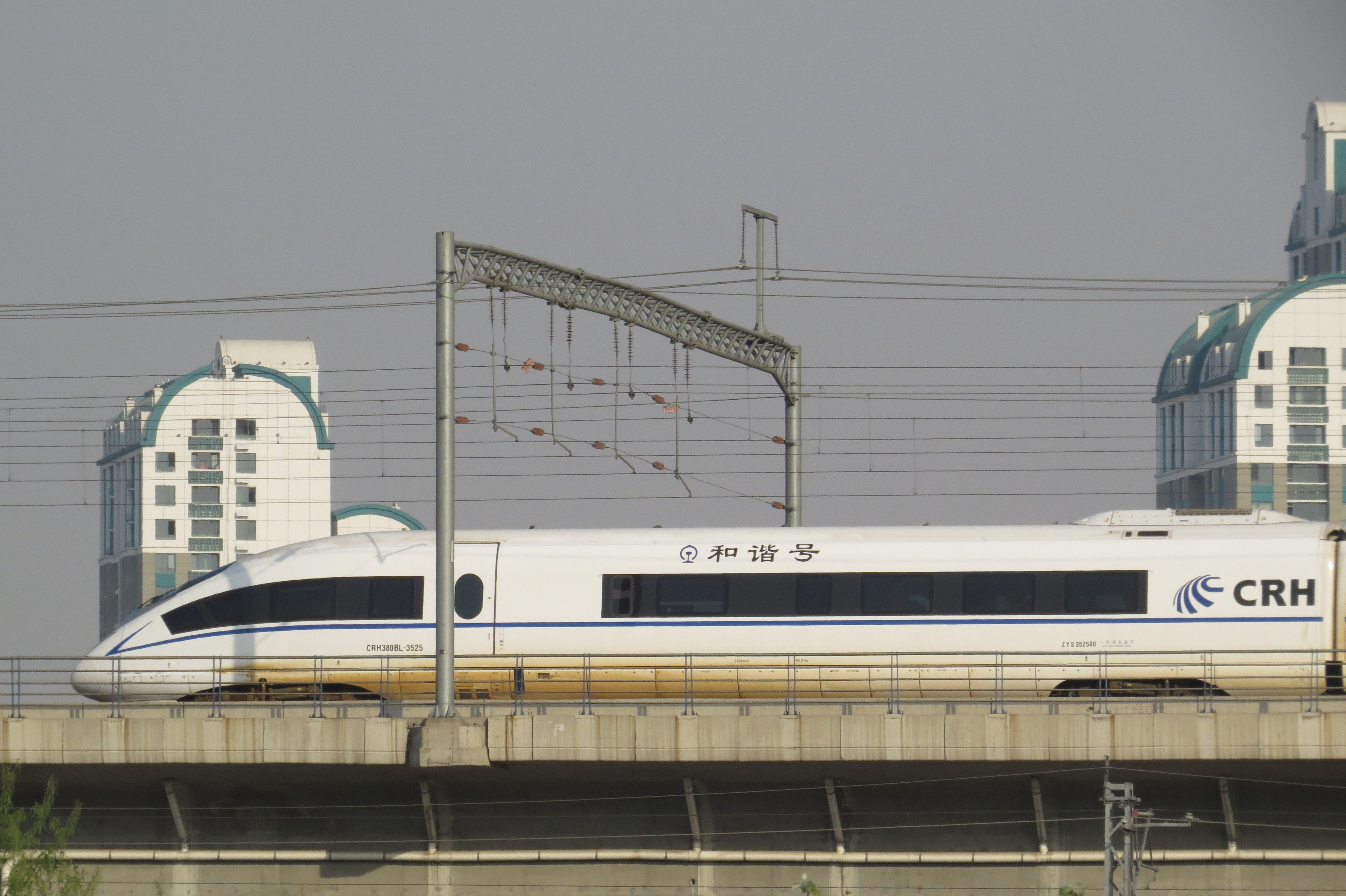 G162 from Anqing... the only 380BL around 16:30 and 16:40.